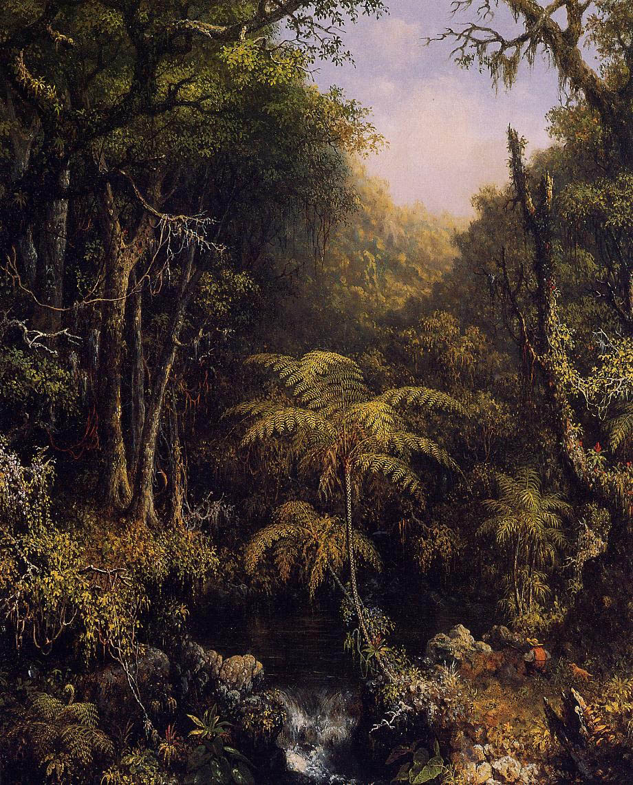 Brazilian Forest